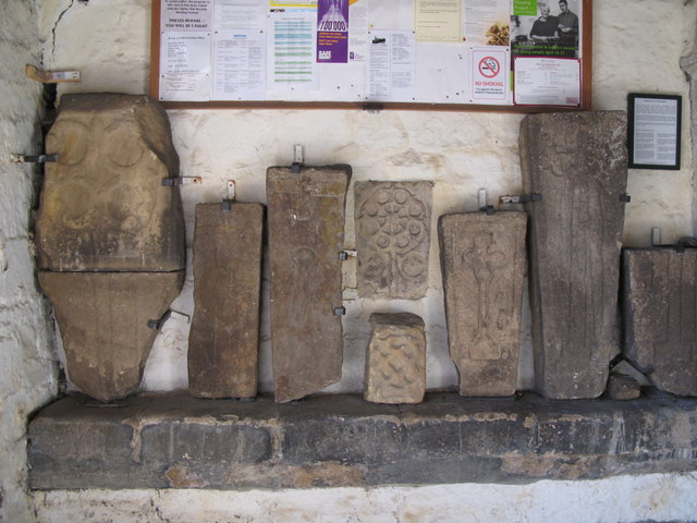 Cross slabs in the porch of St. Mary's Church, Ovingham. See 1051412.